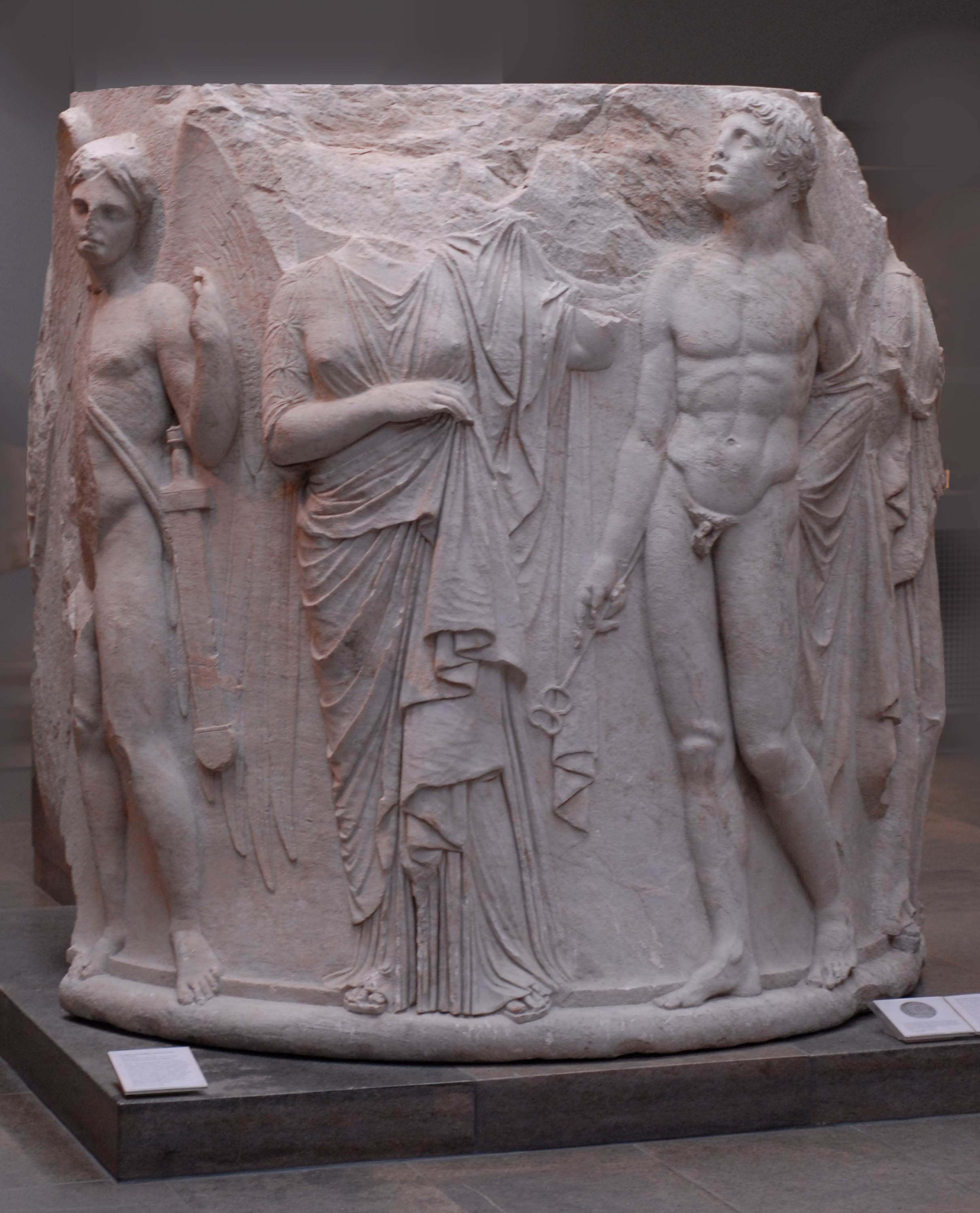 Column drum from the temple of Artemis at Ephesus.Subject unidentified, possibly l-r Thanatos, Alkestis, Hermes, Persephone and Hades (unseen), ca. 320 BC.